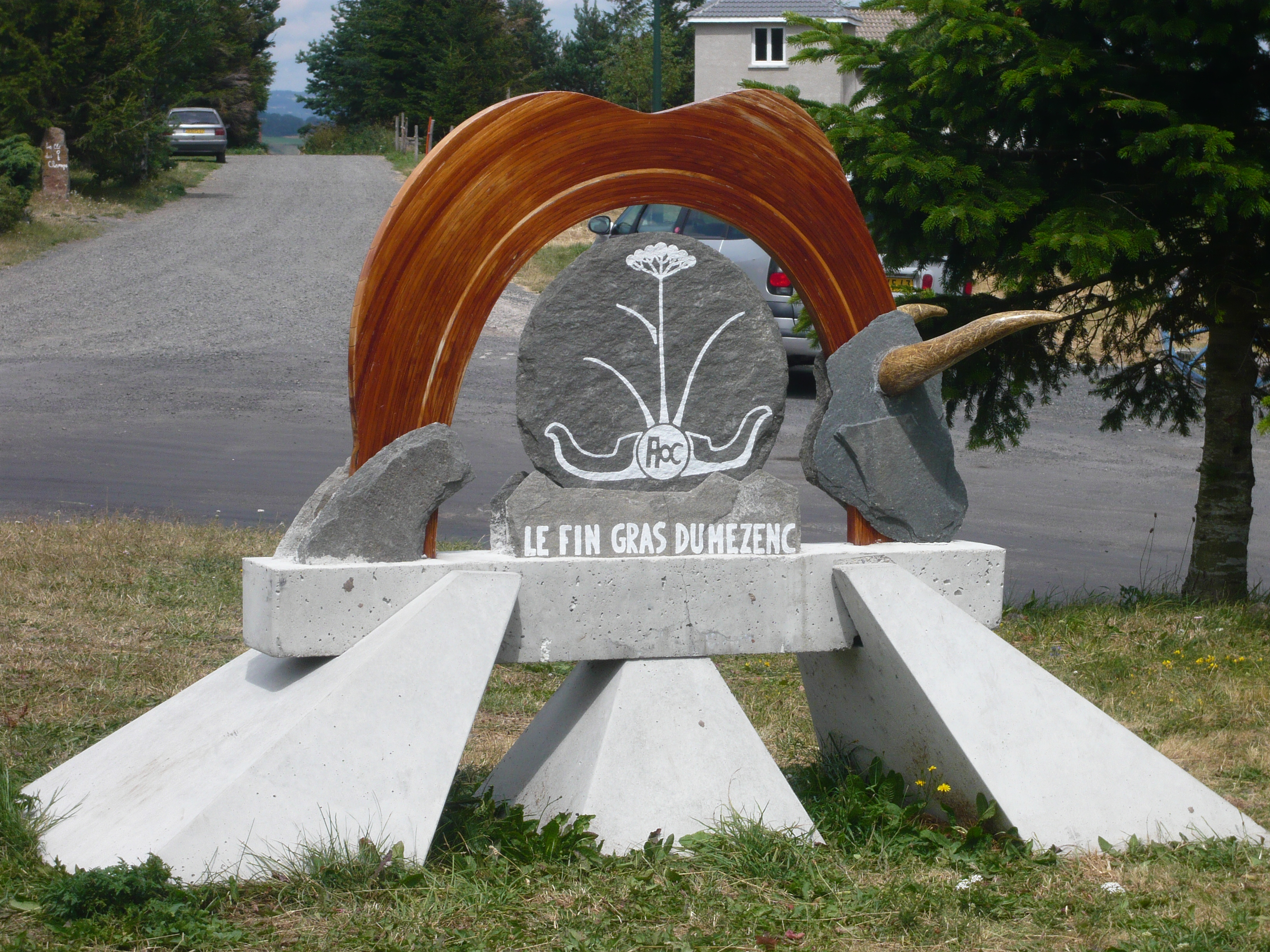 Advertising for the AOC Fin Gras du Mézenc beef meat. Saint-Clément (Ardèche; France). July 2010.